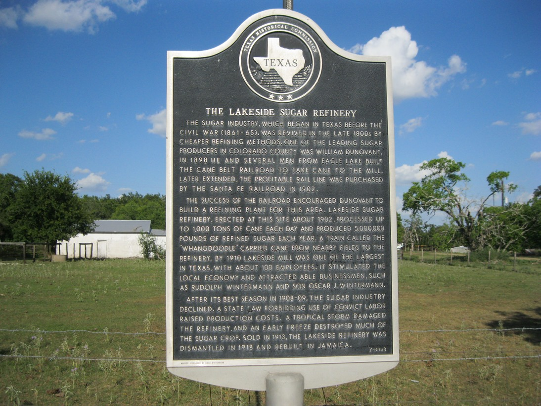 Photo shows an historical marker at the site of a one-time sugar cane factory on Farm to Market Road 102 on the south side of Eagle Lake, Texas. View is to the east.